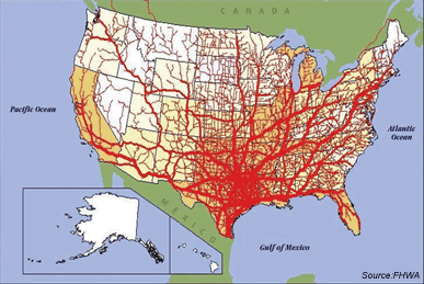 This map shows the heavy volume of freight shipped through Texas, a major trade gateway from Mexico and South America, as red lines branching out from the heart of the Lone Star State.